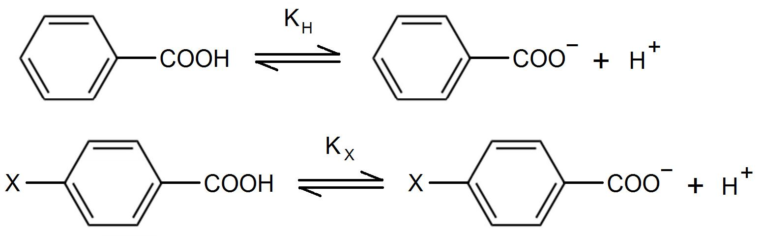 Hammett equation